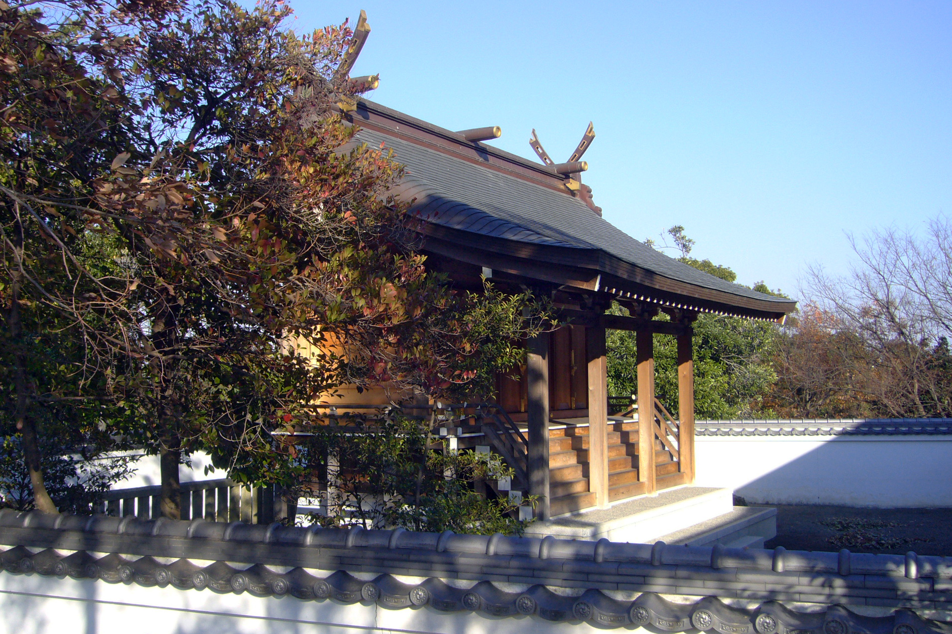 Ichioka-jinja, Sennan, Osaka prefecture, Japan